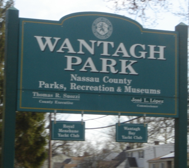 Wantagh Park entrance sign in Wantagh, New York.